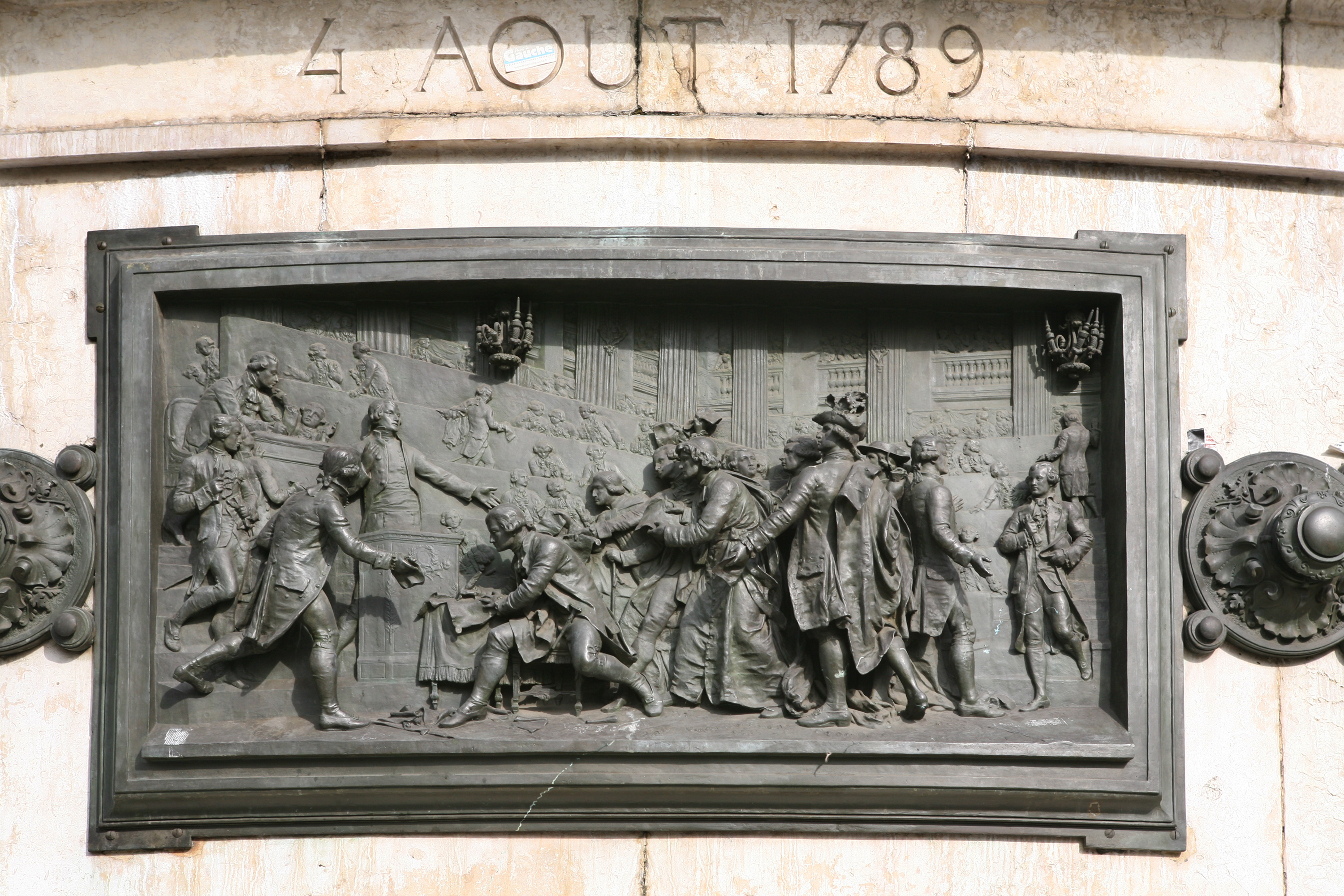 Night of August 4th (1789), abolition of feudality and fiscal privileges, high-relief bronze by Léopold Morice, Monument of the Republic, Republic Square, Paris, 1883